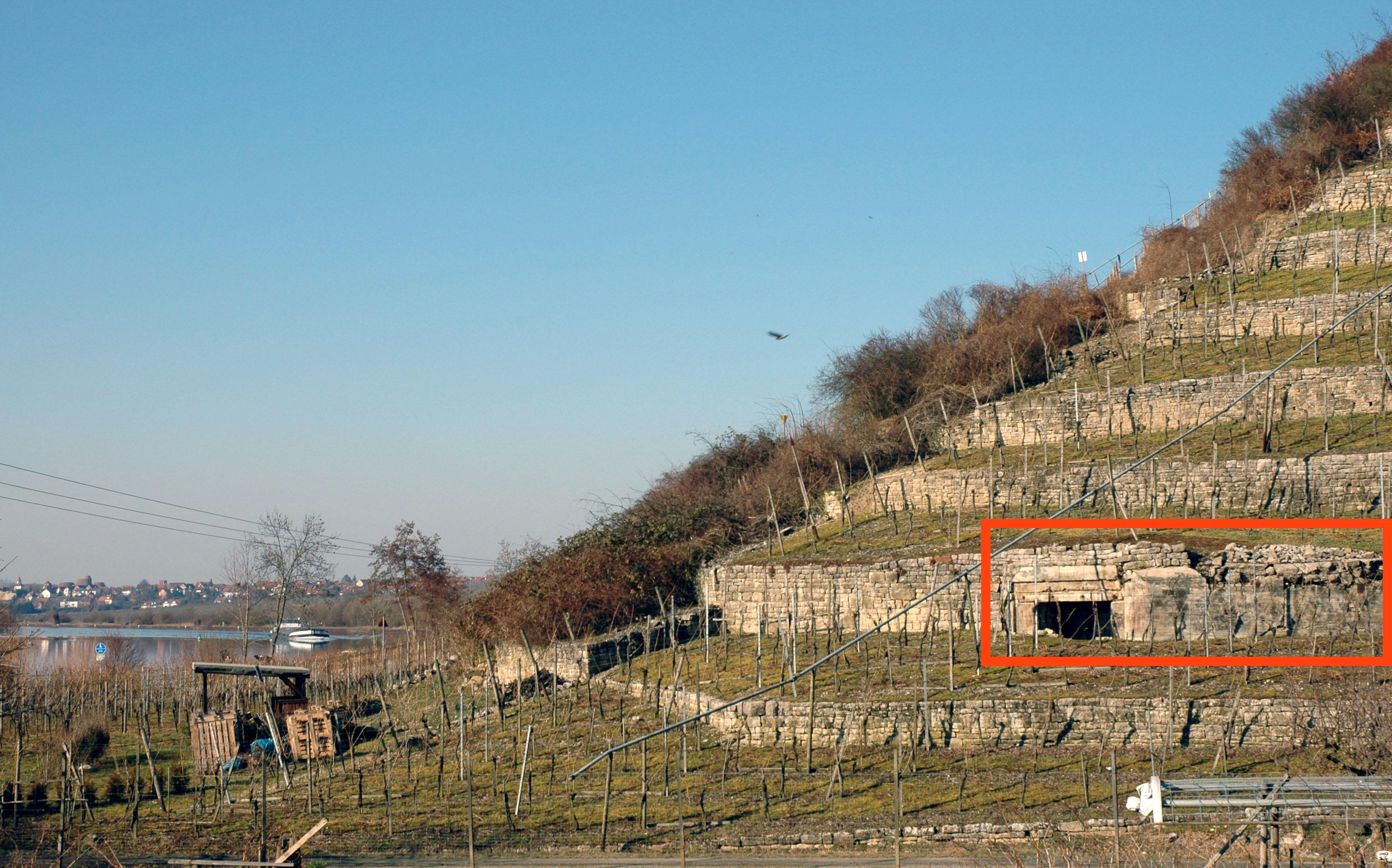 orange mark: remains of bunker 266 of the Neckar-Enz-Stellung near Lauffen am Neckar.